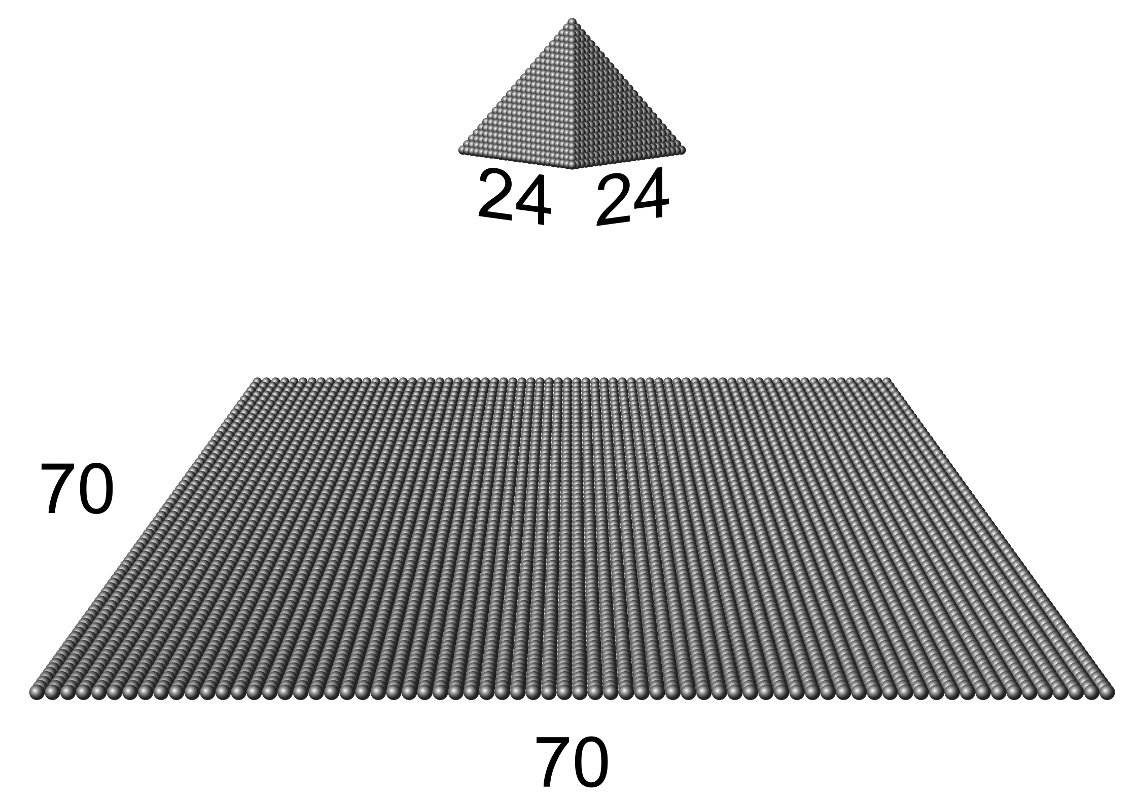 Illustration of Cannonball problem.